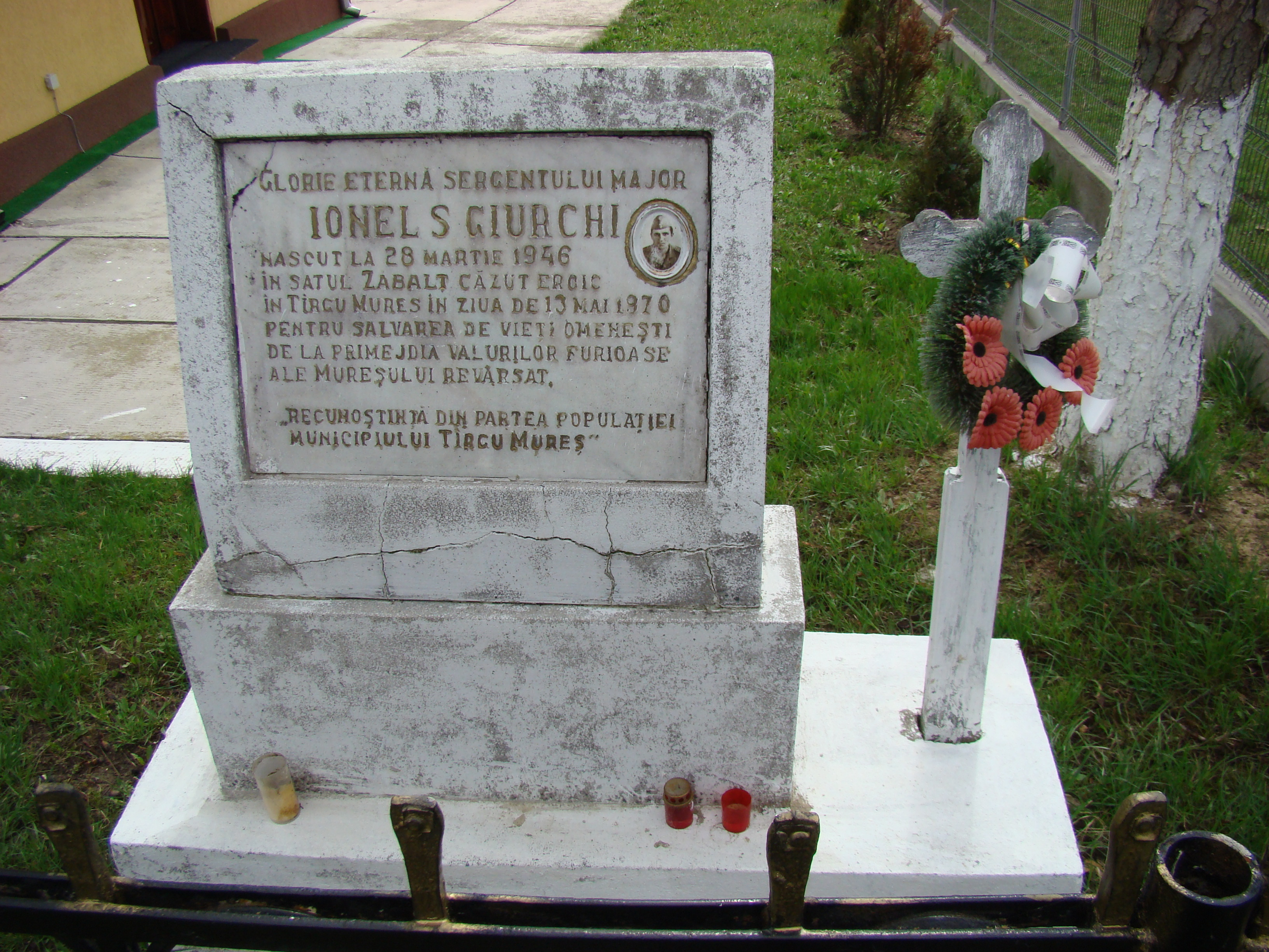 Zăbalț, Arad county, Romania